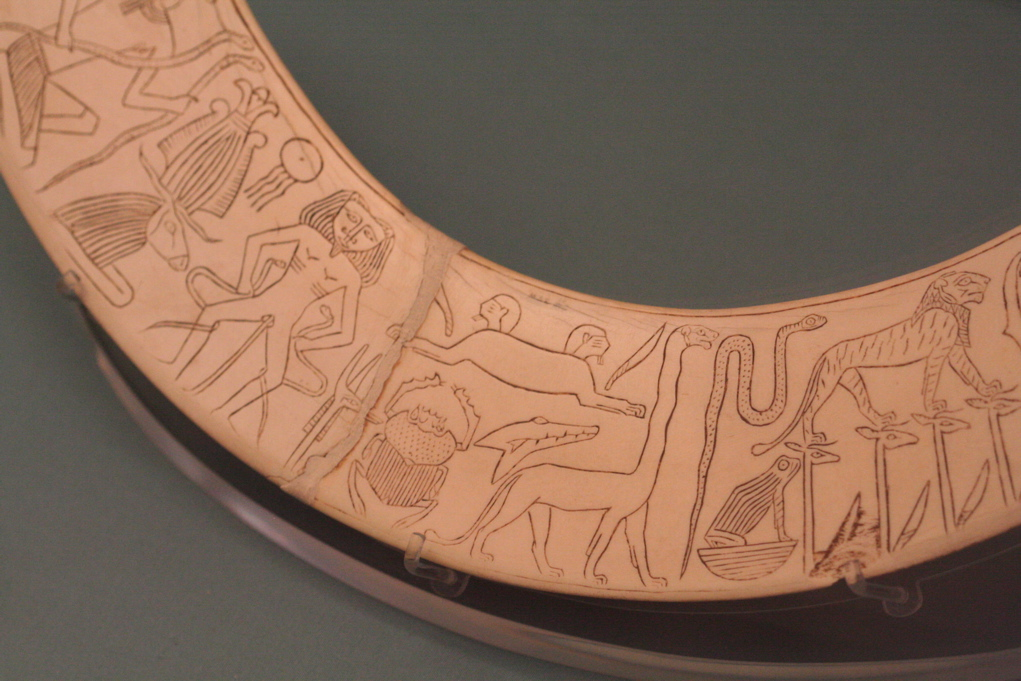 Apotropaic wand. From Thebes, Egypt. Late Middle Kingdom, around 1750 BC A magical 'knife' intended for the protection of a mother and child. I had a wonderful day at the British Museum with CoryQ (of MonkeyRiverTown) and his wife Mary. These are everything I shot that day, unedited and uncleaned, except for shrinking them some to spead up the upload.